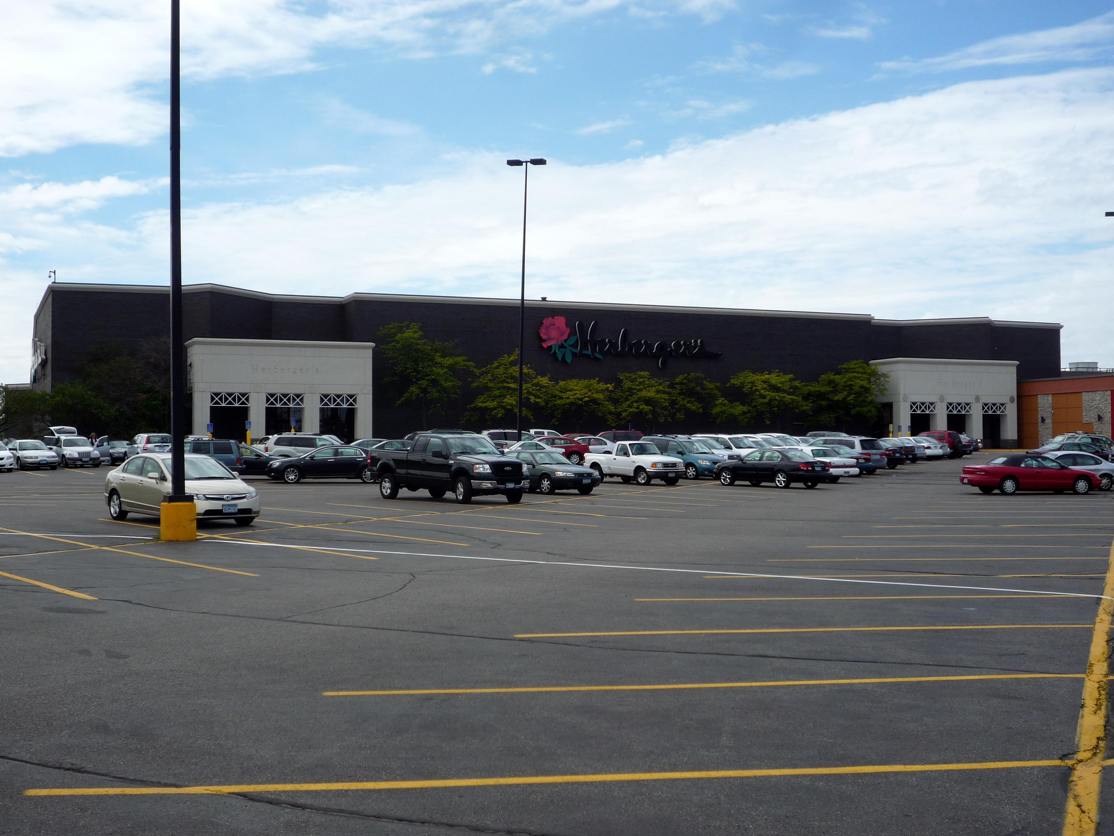 A Herberger's store in the Rosedale Center, Roseville, Minnesota, USA.